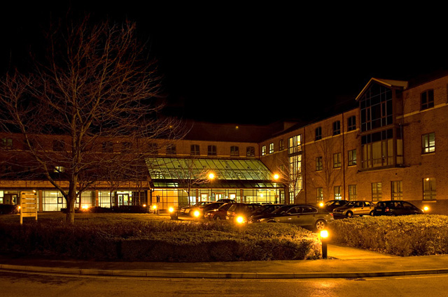 Wigan Investment Centre, in Wigan, Greater Manchester, England; the headquarters of the Association of Greater Manchester Authorities, British Waterways, and others.